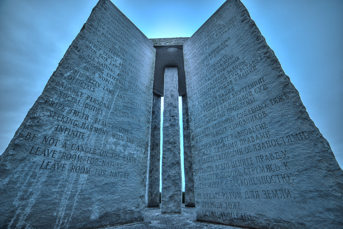 Capture from the north view of the Georgia Guidestones (English, Babylonian and Russian languages). Through the center stone, from south to north, a two-inch diameter hole is inclined at an angle of 34 degrees and points to the North celestial pole. A beam of sunlight passing through a hole in the capstone forms a spot of light below. The position of the spot can be used to determine high noon and the day of the year.